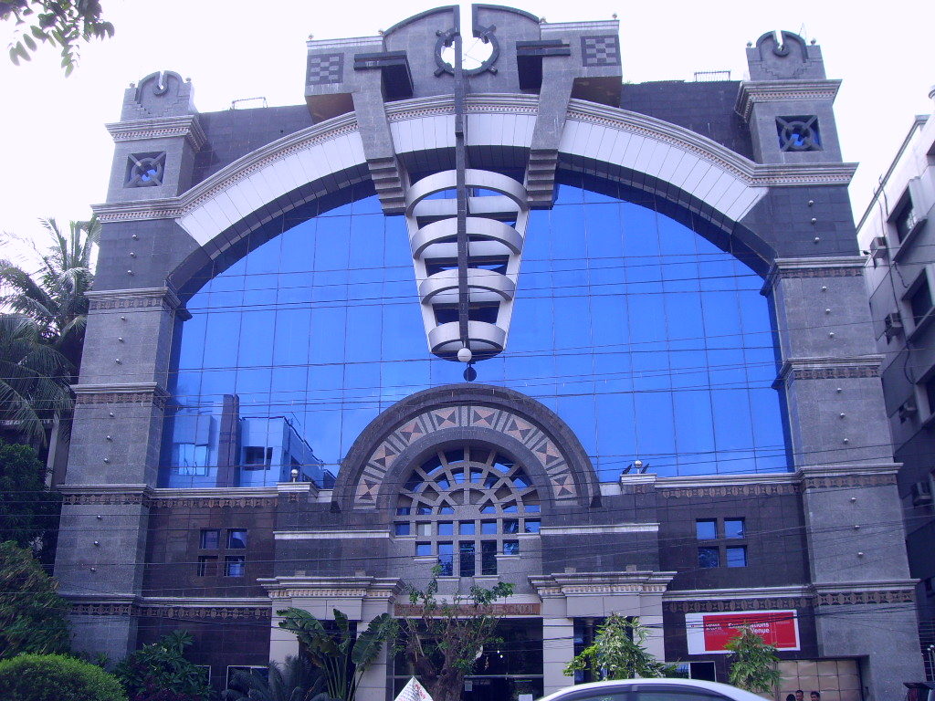 A picture of the Oxford International School building in Dhaka, Bangladesh